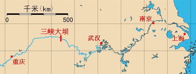 Map of the location of the Three Gorges Dam, Sandouping, Yichang, HubeiHubei Province, China and major cities along the Yangtze River. This map was generated using the Generic Mapping Tools (GMT). The coordinates (longitude, latitude) of the cities used are: *Wuhan, 114.2790 30.5725 *Nanjing, 118.7833 32.0500 *Shanghai, 121.4730 31.2479